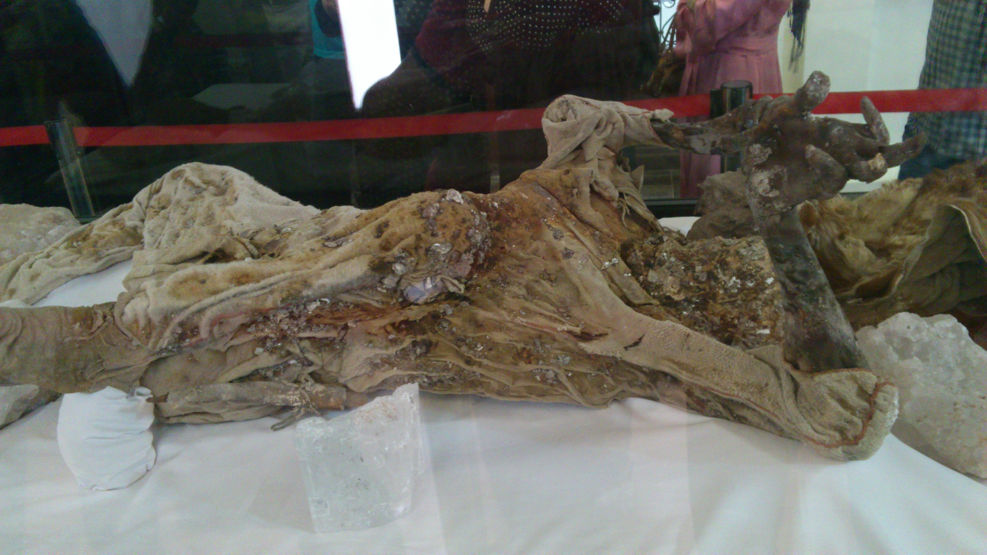 Saltyman is discovered in Zanjan- Iran